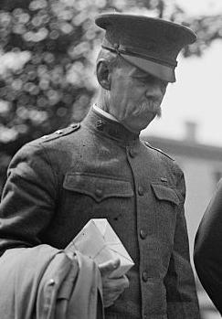 Brigadier General Henry Granville Sharpe